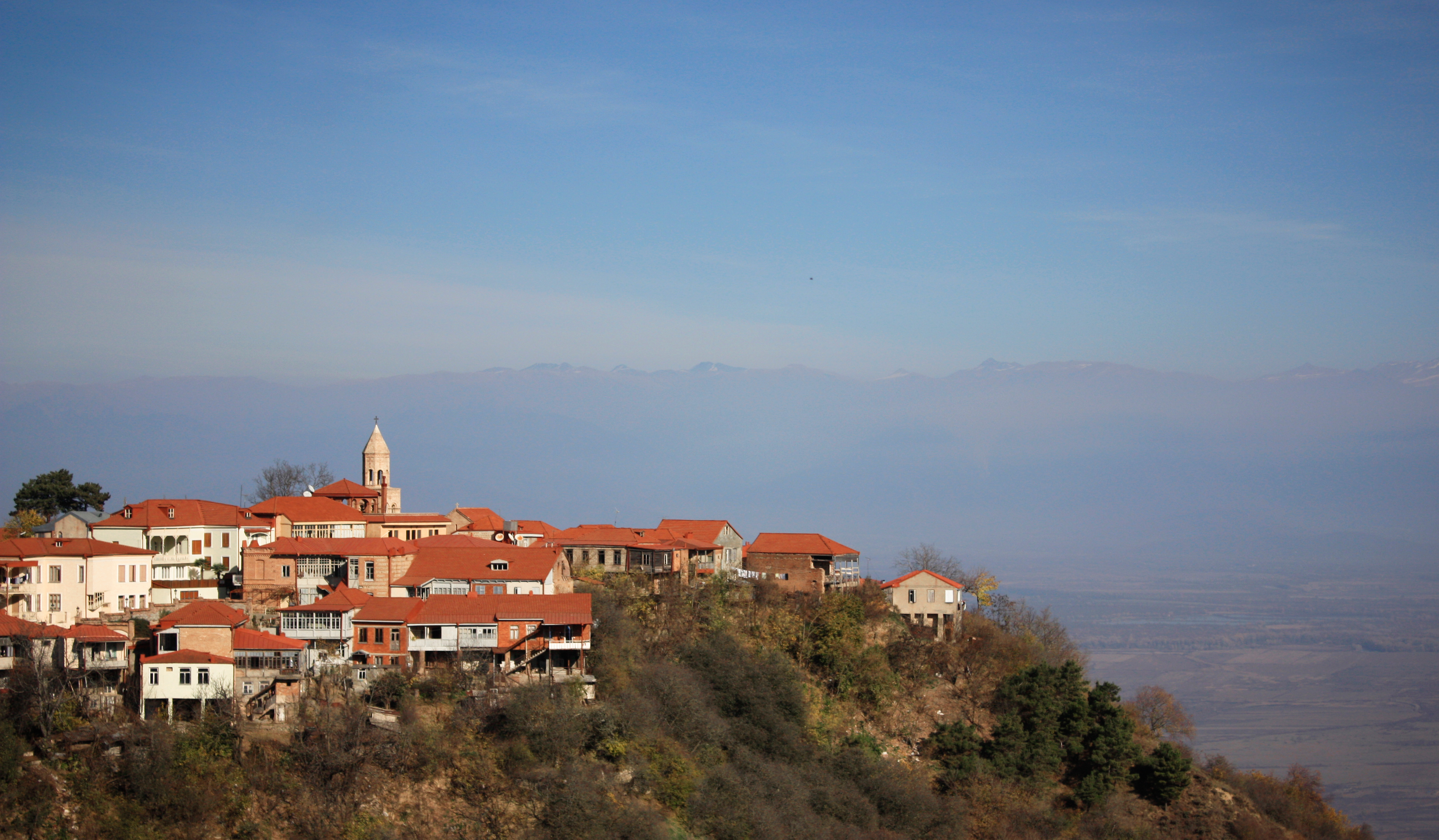 The general view of the town of Sighnaghi.